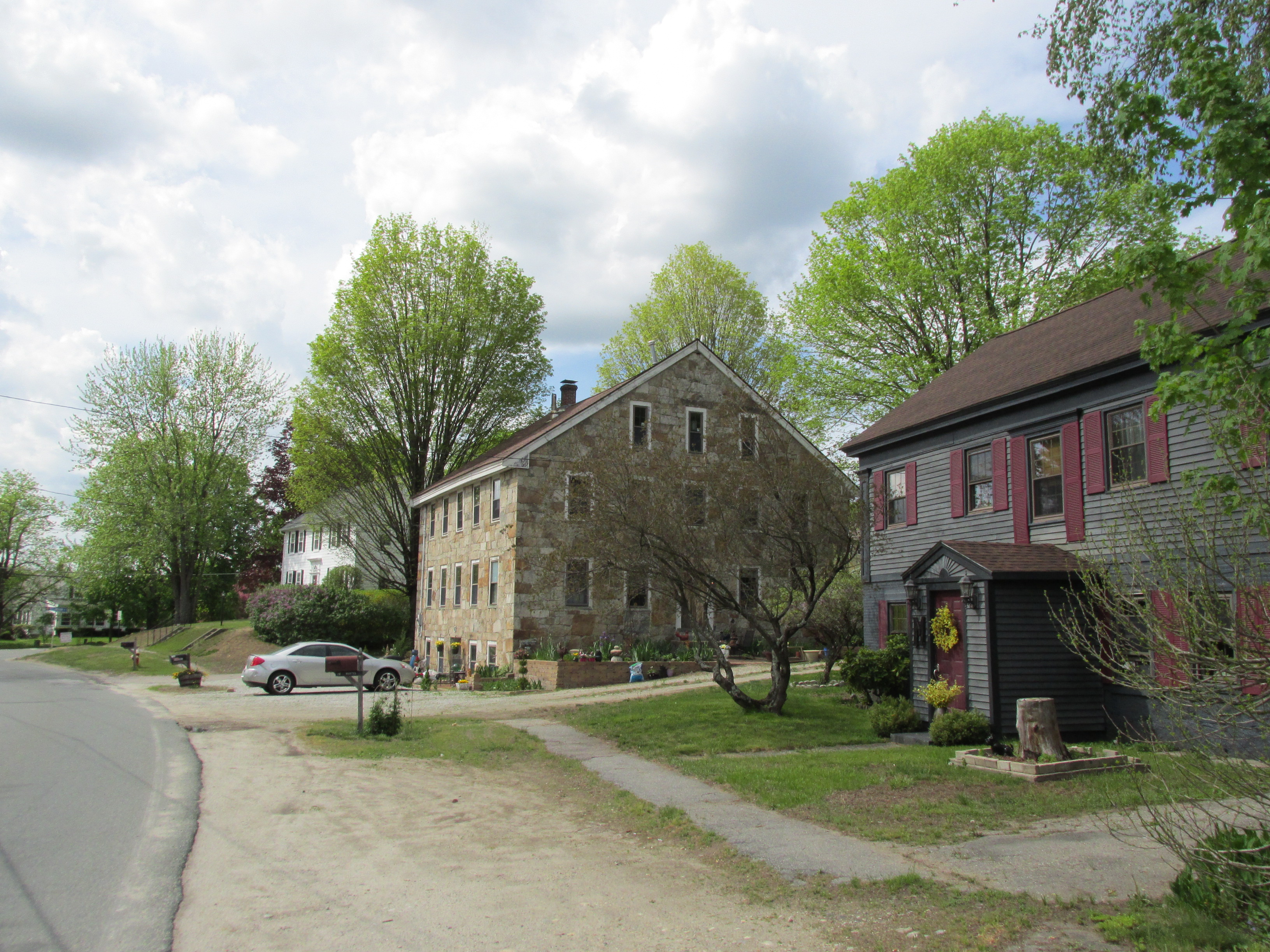 Elm Street, East Blackstone Massachusetts - 2013